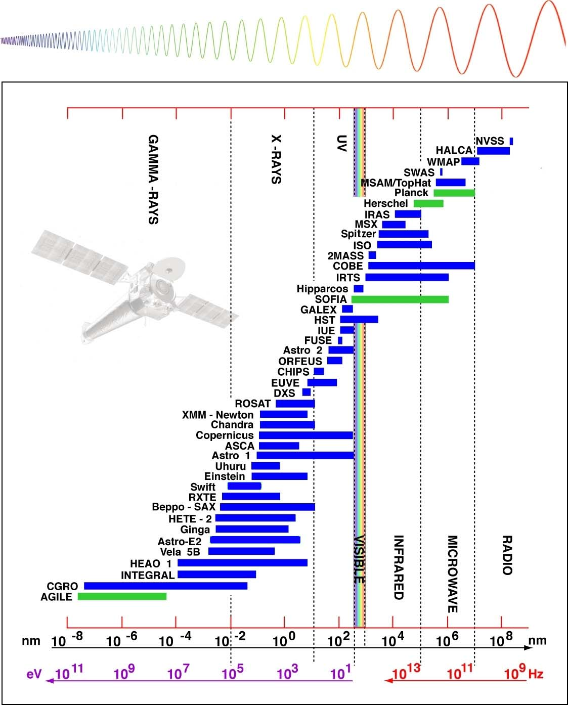 Some space observatories (+3 ground based surveys) and their wavelength working ranges. Blue bars indicate past or current missions, and green bars those in development, all as of 2005.